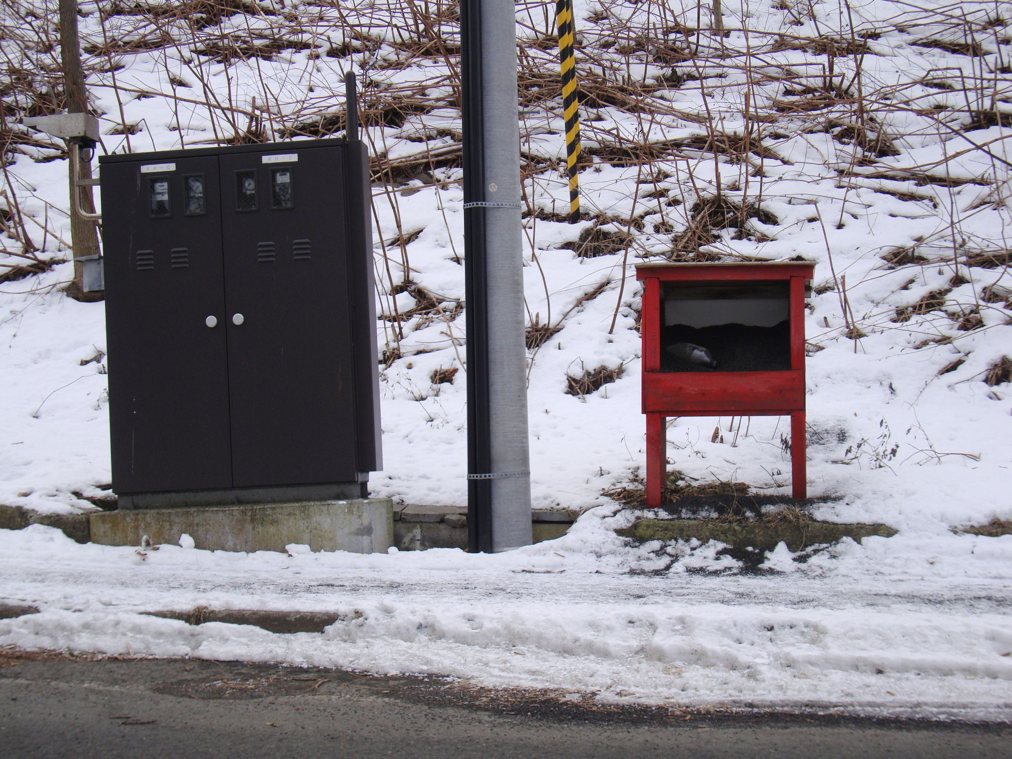 Sandbox